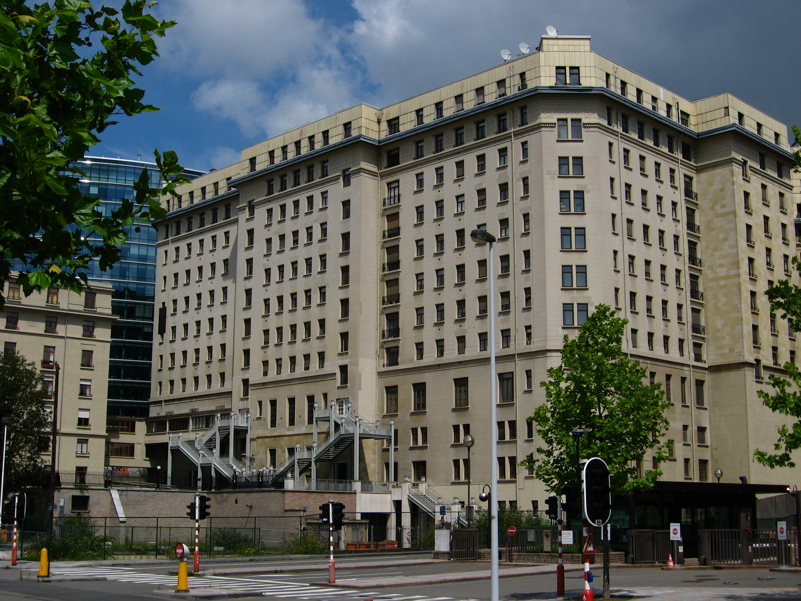 Résidence Palace seen from Chaussée d'Etterbeek